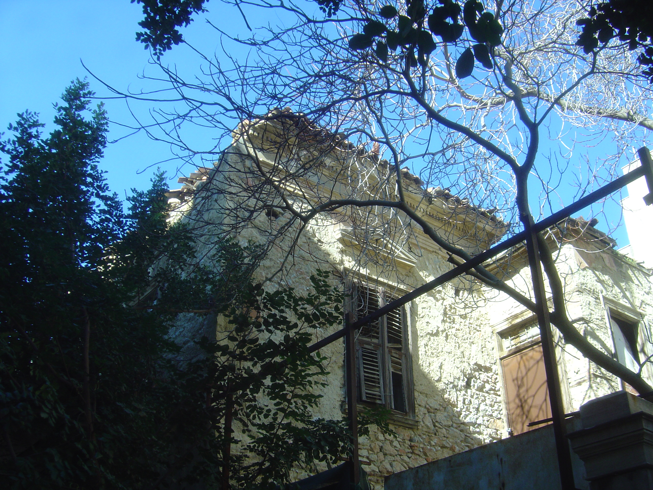 Greek poet's Napoleon Lapathiotis house in Exarhia, Athens, Greece